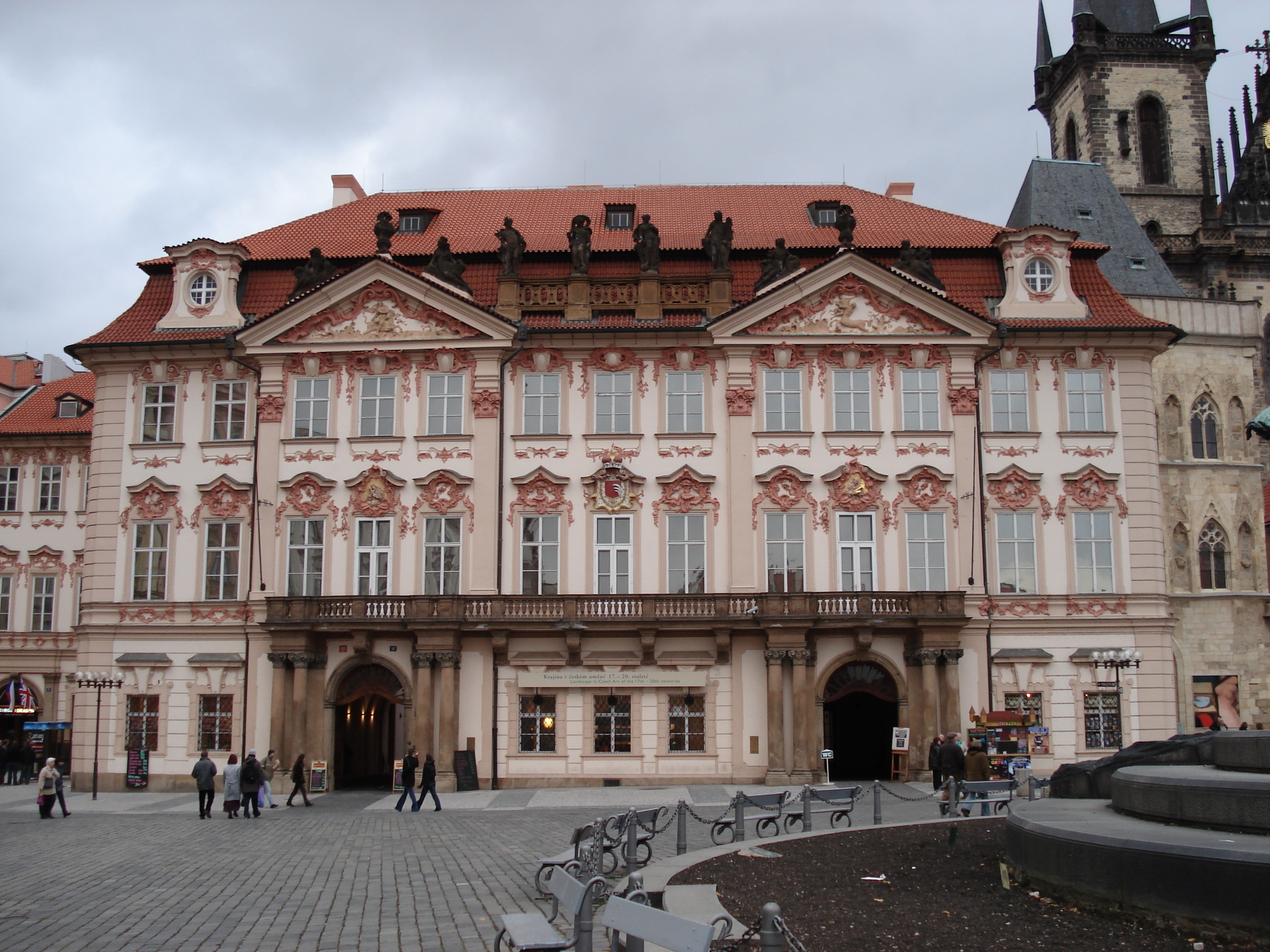 Palace Golz-Kinsky on Old town square, Praha.